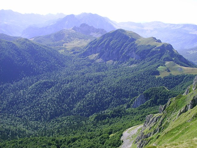 Zelengora mountains in Bosnia-Herzegovina